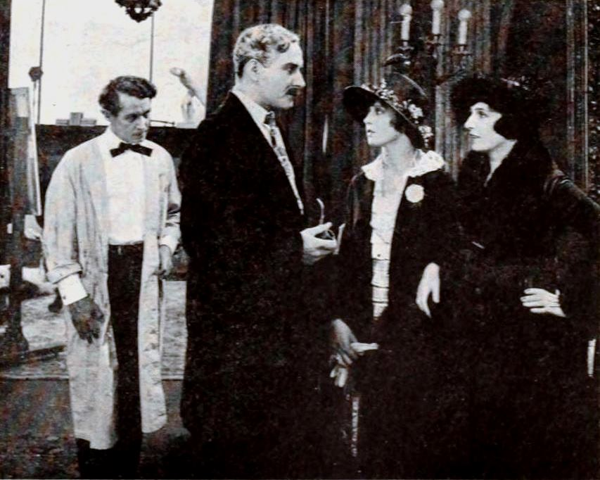 Still from the American film Parted Curtains (1920) with Henry B. Walthall, William Clifford, Margaret Landis, and Mary Alden, on page 45 of the May 22, 1920 Exhibitors Herald.